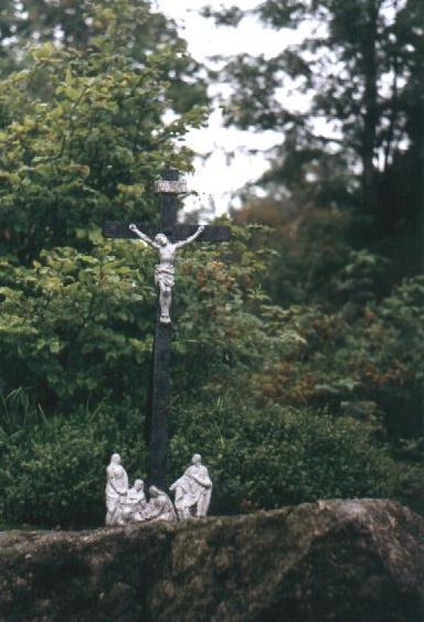 Bäumel's croos, Jizera Moutains, Czech republic